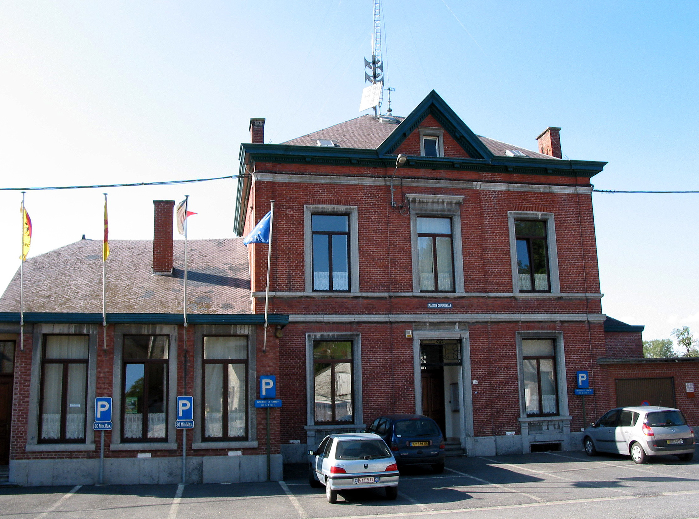 Doische (Belgium), the common house.